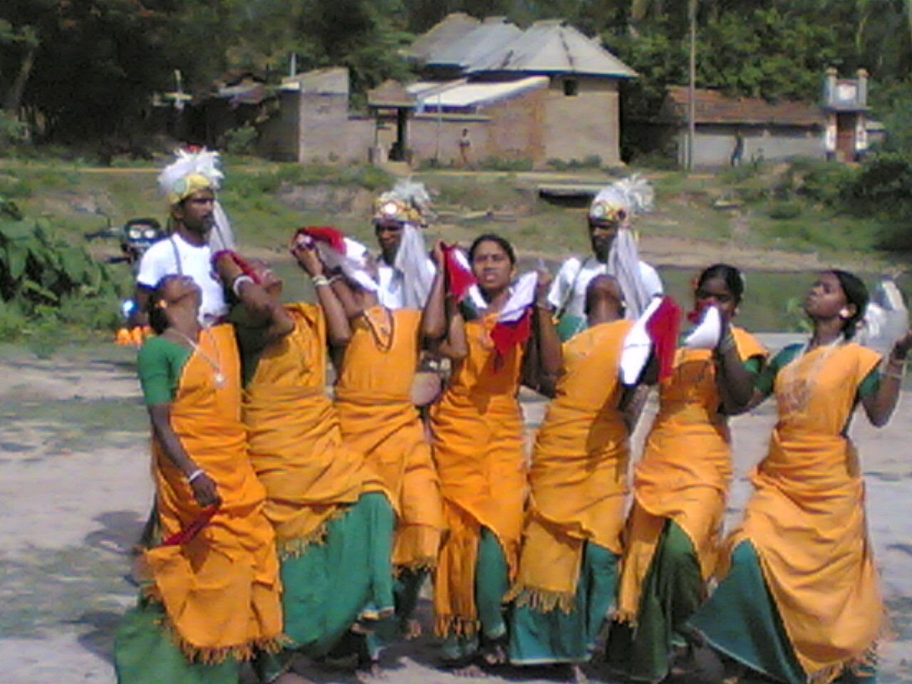 It's a typical dance saontal peoples.